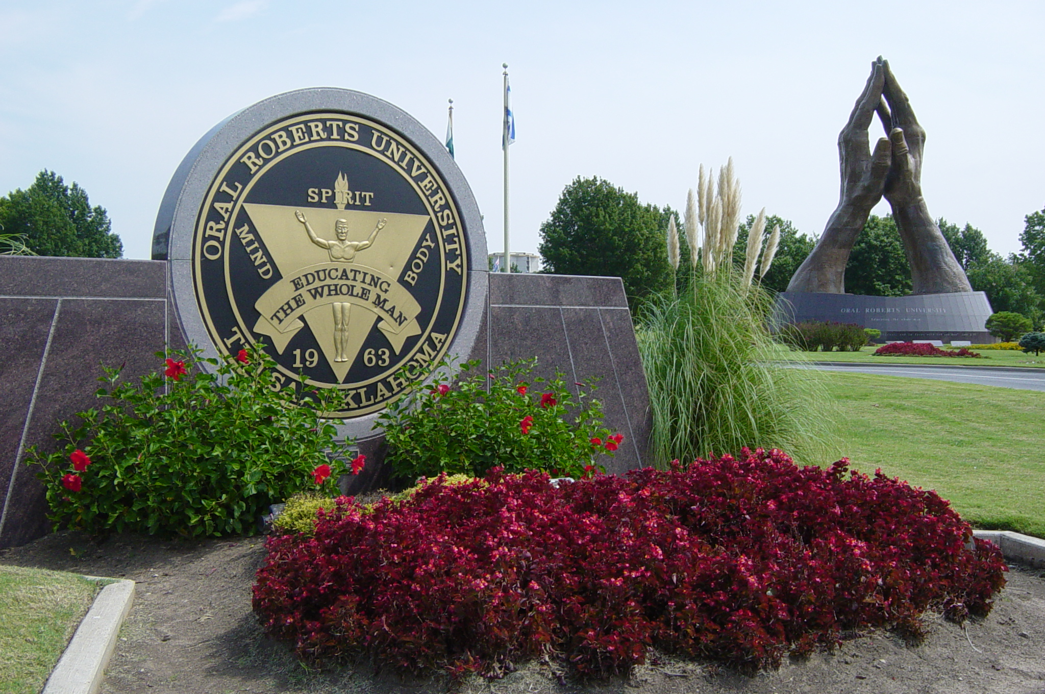 Photograph of the Praying Hands bronze sculpture and the Avenue of Flags at the main entrance to Oral Roberts Universityen in Tulsaen, Oklahomaen.